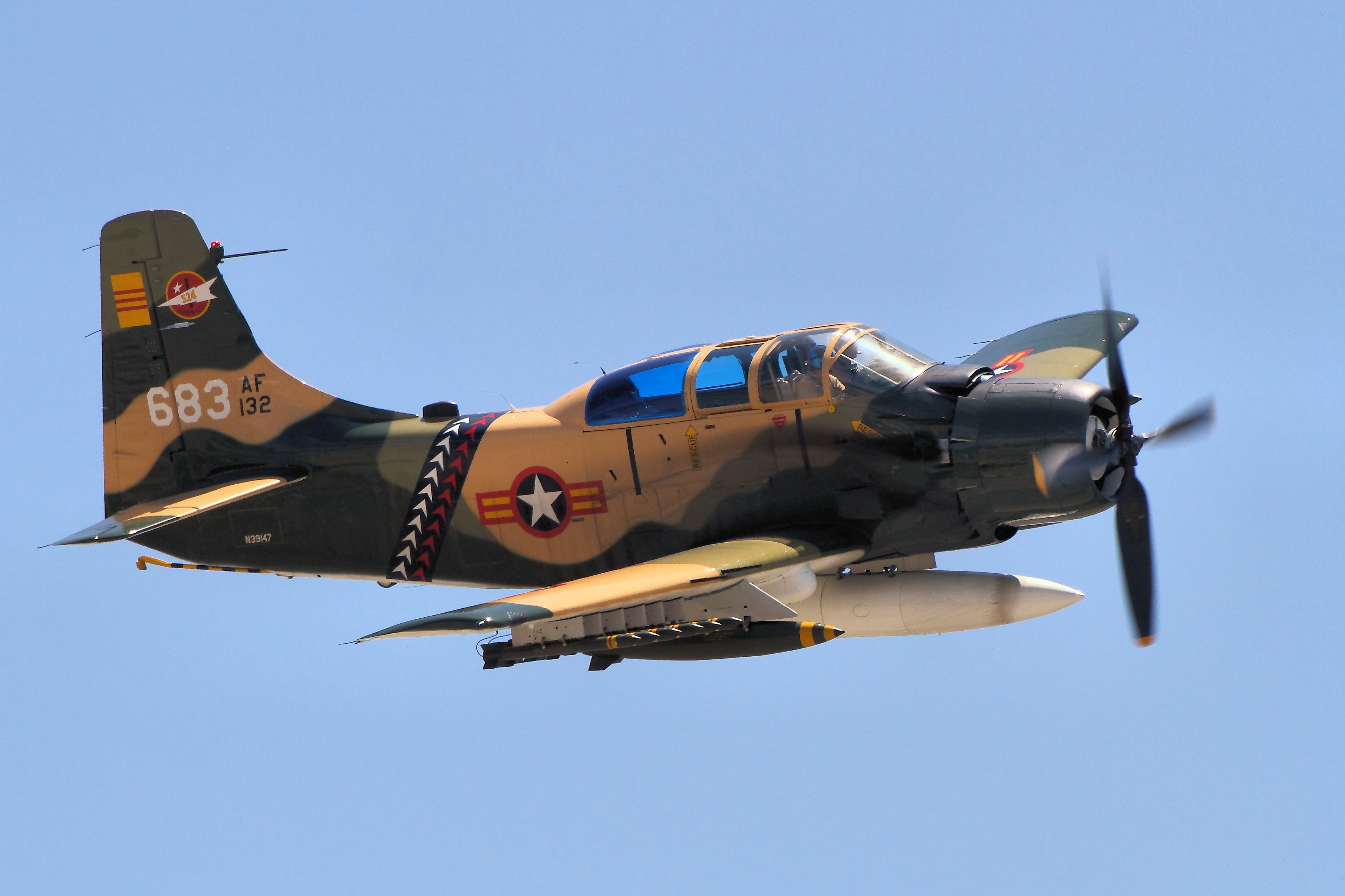 AE-1 Skyraider - Chino Airshow 2014